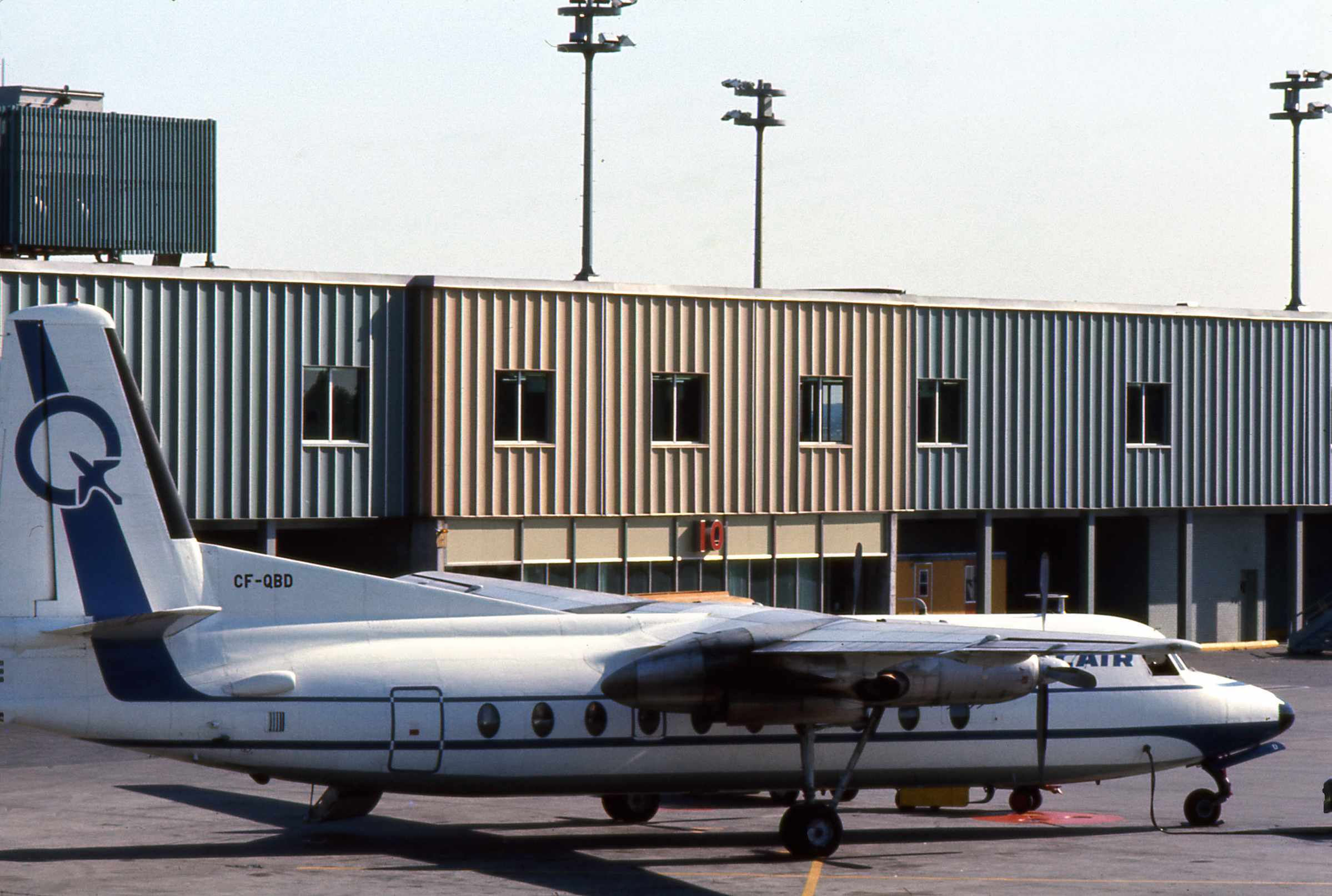 Quebecair Fokker F27 Friendship c/n 27 delivered to Reynolds Metal as N994 on December 30, 1958. Sold to Yale University then to Frederik Ayer, still used in 1973 by the airline on short routes.